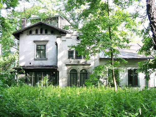 Poland, Kraków, "Kossakówka" - house of Juliusz Kossak, polish painter